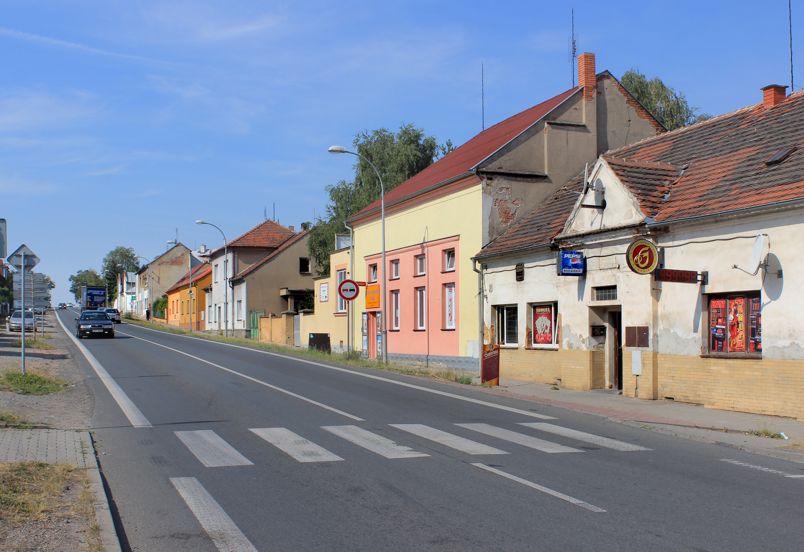 Road No 26 in Zbůch, Czech Republic.